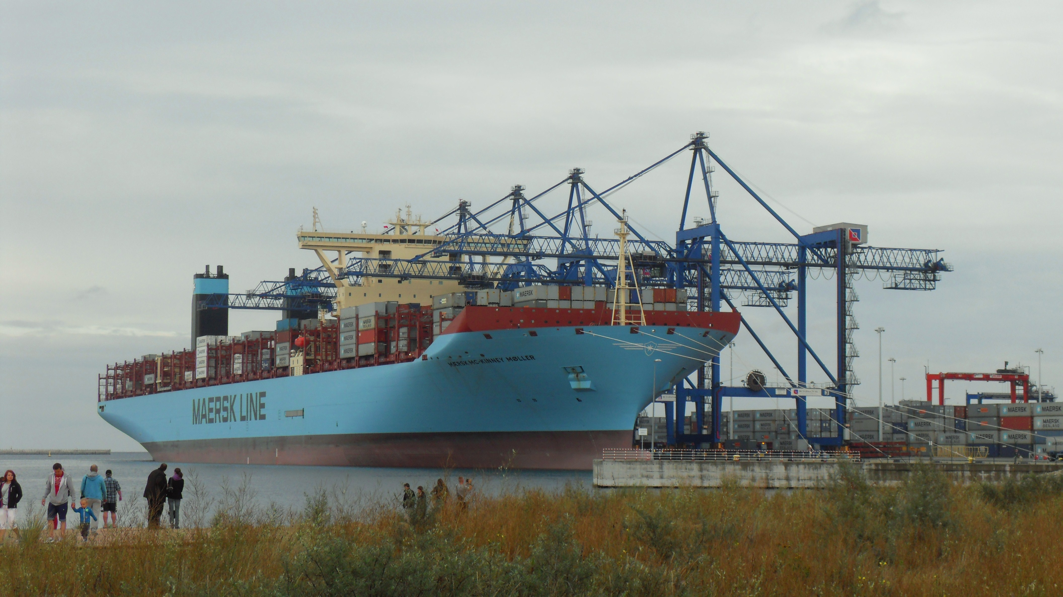 Mærsk MC-Kinney Møller (nowadays the world's longest ship) in The Deepwater Container Terminal Gdańsk.